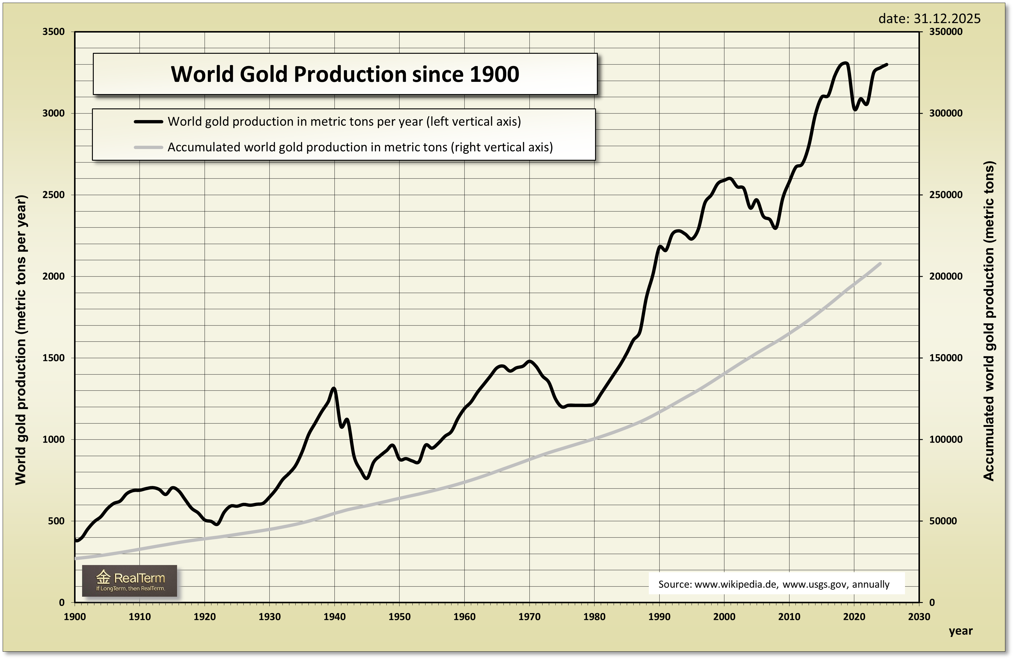 World gold production (in metric tons per year), in addition accumulated world gold production